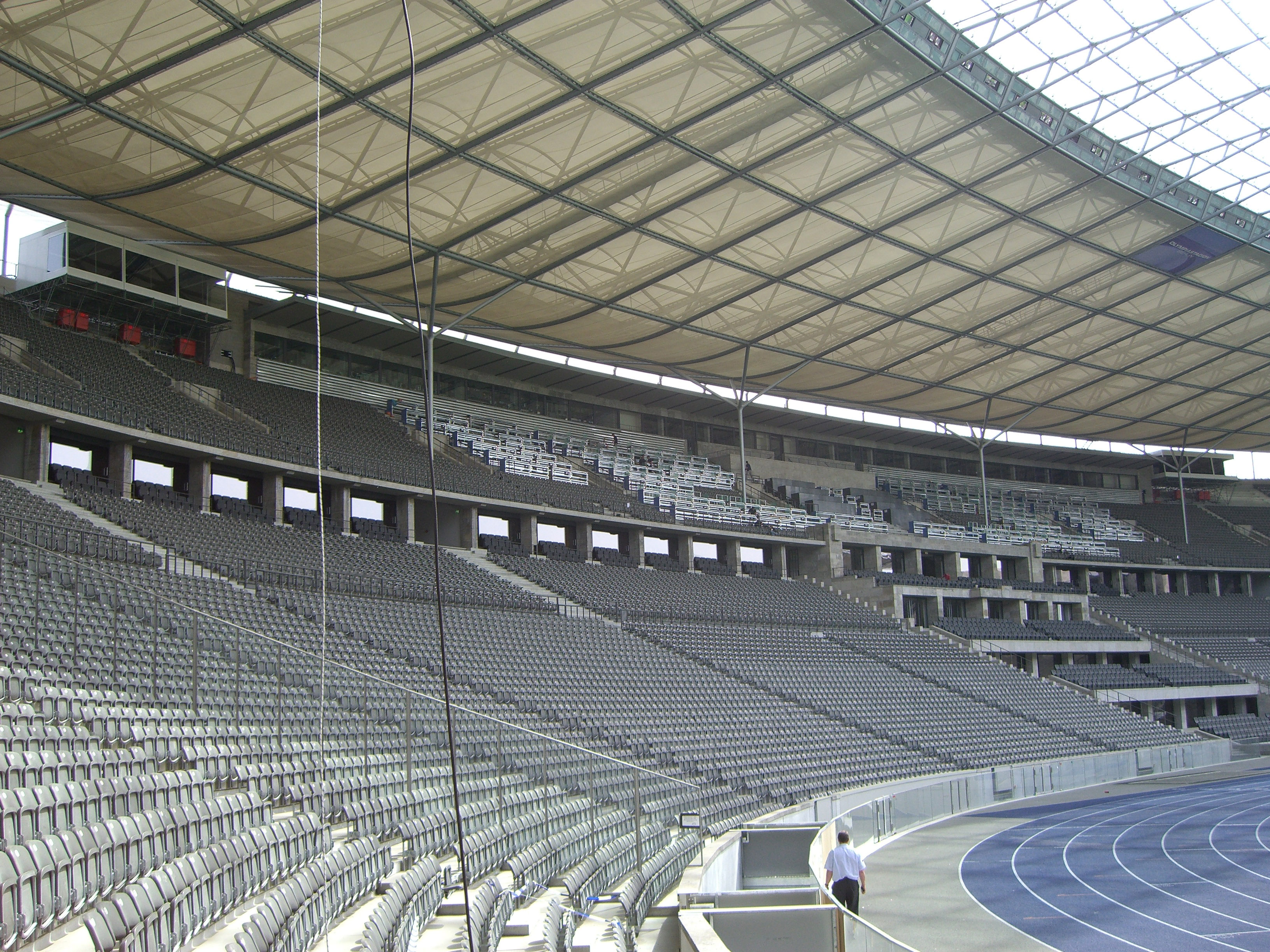 modification of the main tribune before beginning of the FIFA World Cup (TM) 2006